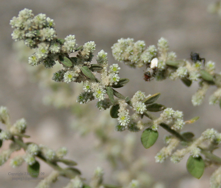 Astmabayata, Bhadram, Bhadrika, Cherula, Cherupula, Bilihindi gida, Choti-bui or Gorakhganja Aerva lanata in Bhongir Fort, Andhra Pradesh, India.